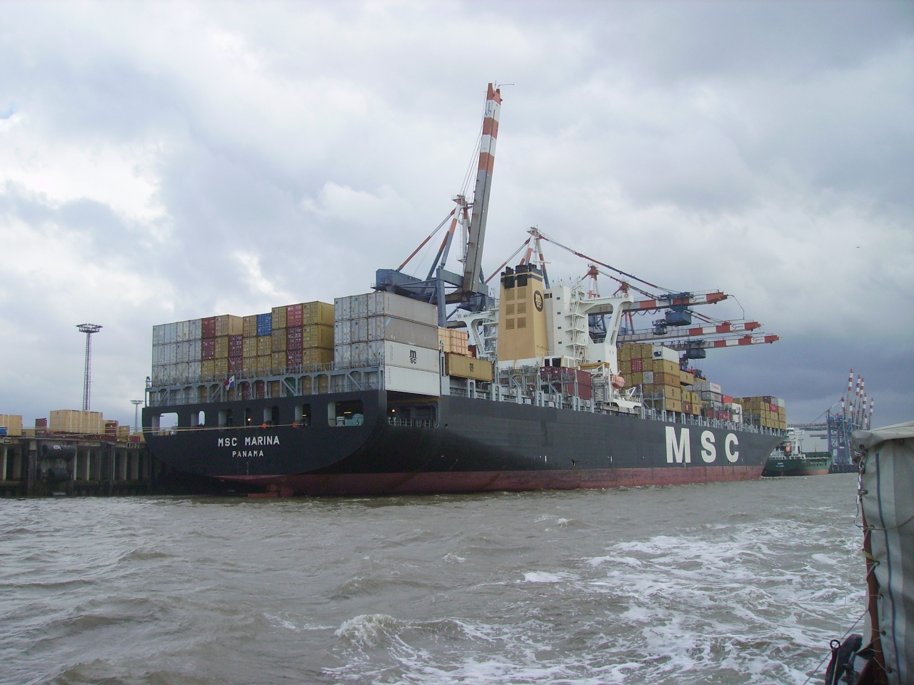 The container ship "MSC Marina" in Bremerhaven, Germany